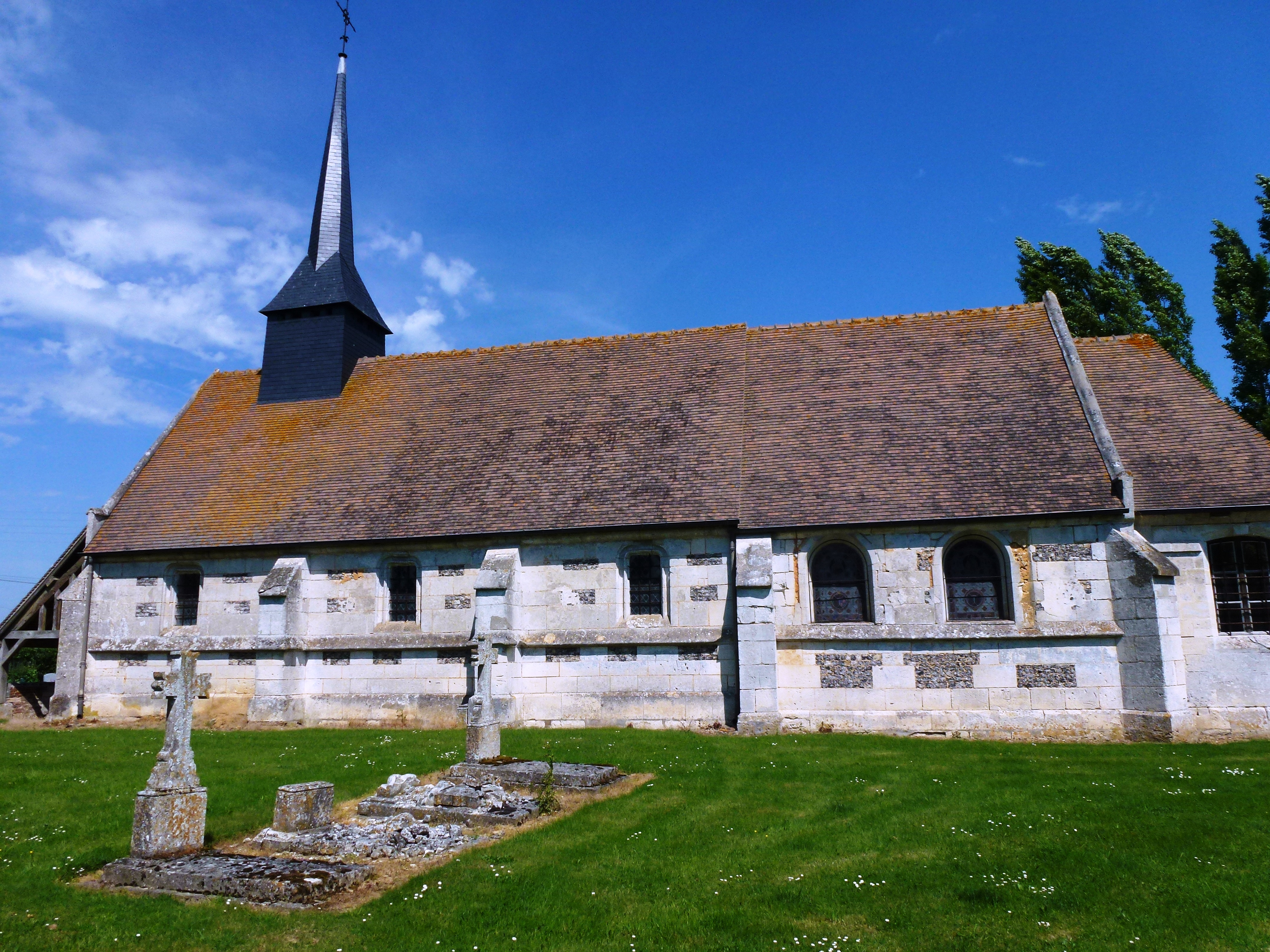 Barquet (Eure, Fr) église Saint-Jean-Baptiste de la Vacherie